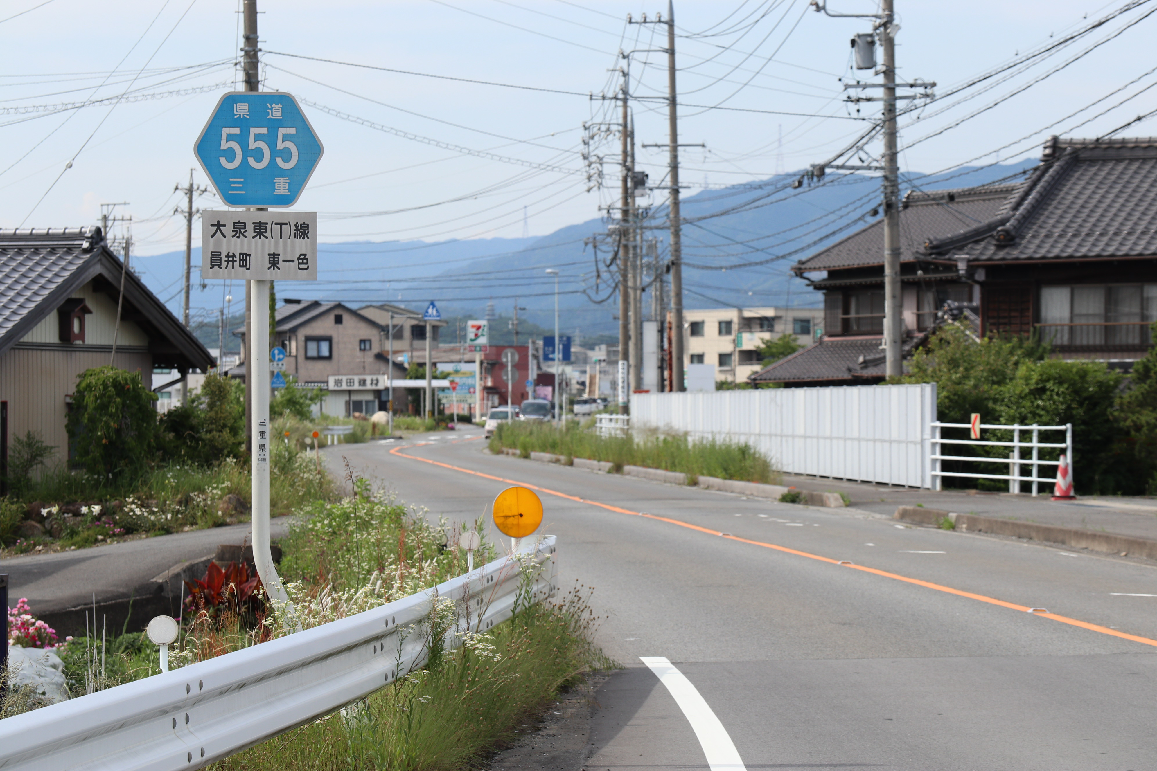 Mie Prefectural Route 555